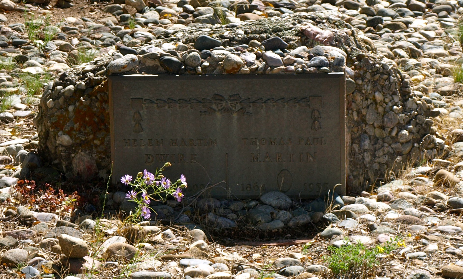 Grave marker of Helen Martin Dwire and Thomas Paul "Doc" Martin, Sierra Vista Cemetery, Taos, New Mexico. Taken Sept. 24, 2010.